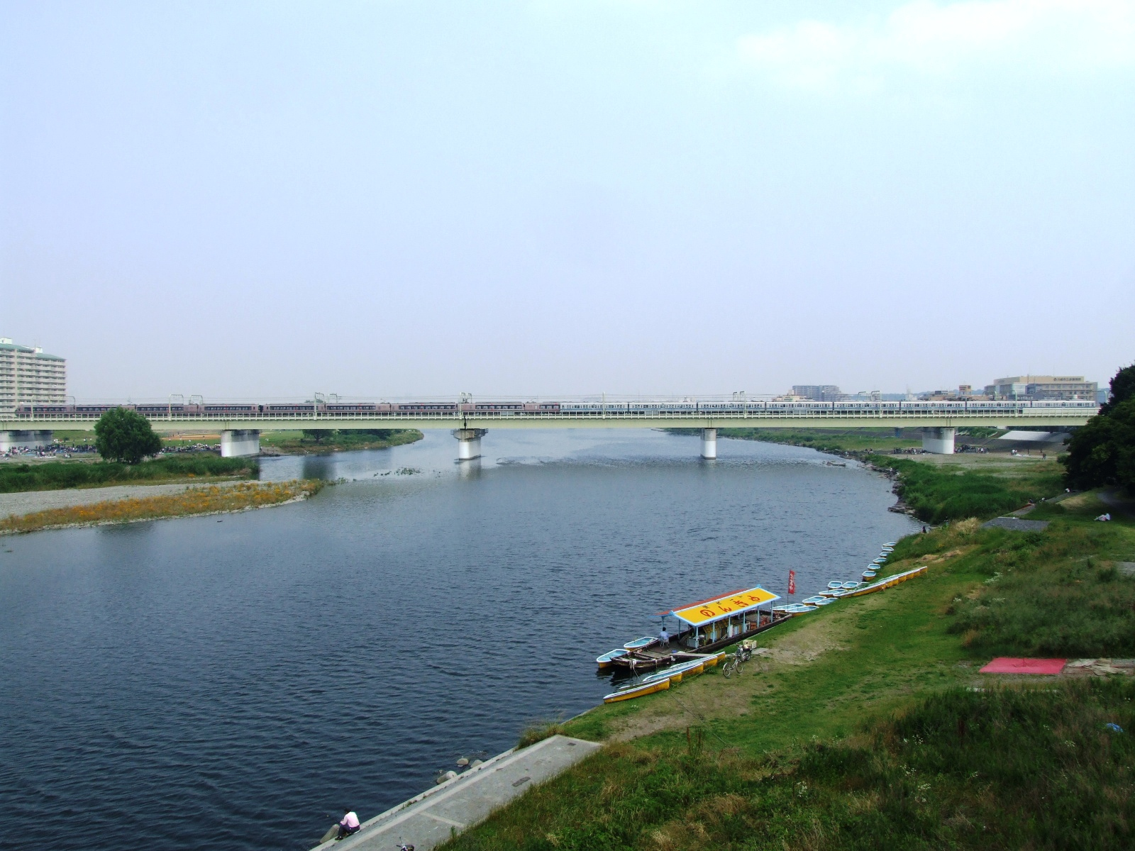 Tama River Bridge,Odakyu Electric Railway,Japan